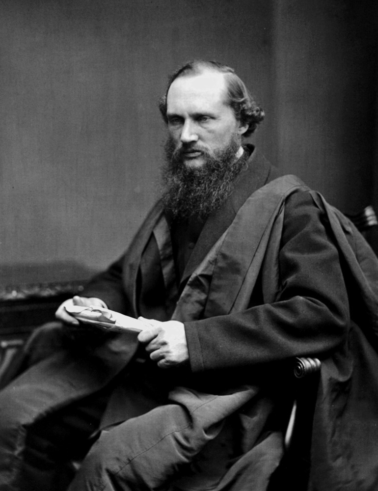 William Thomson, 1st Baron Kelvin (26 June 1824 – 17 December 1907)